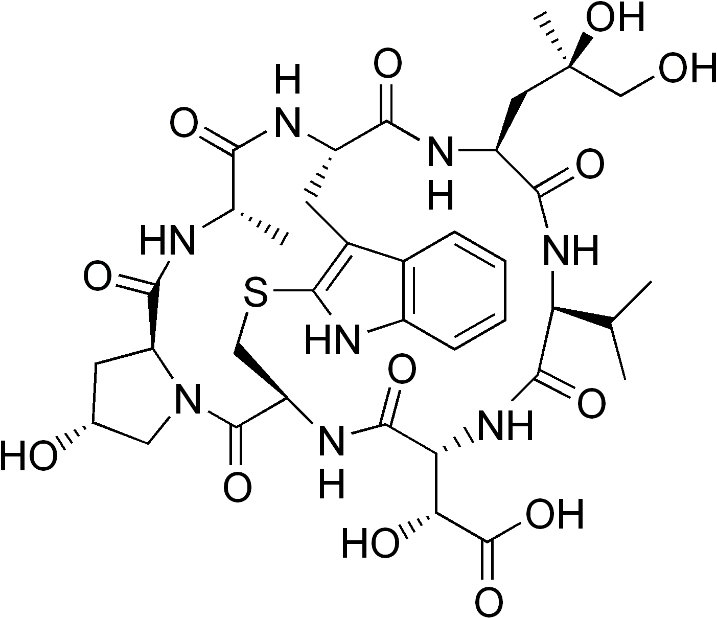 chemical structure of phallacidin